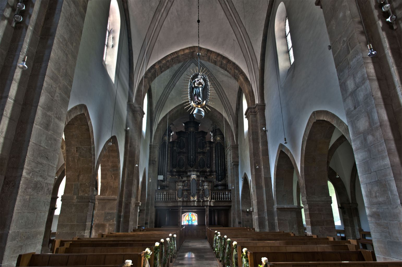 Church St. Nikolaus in Büren, Germany